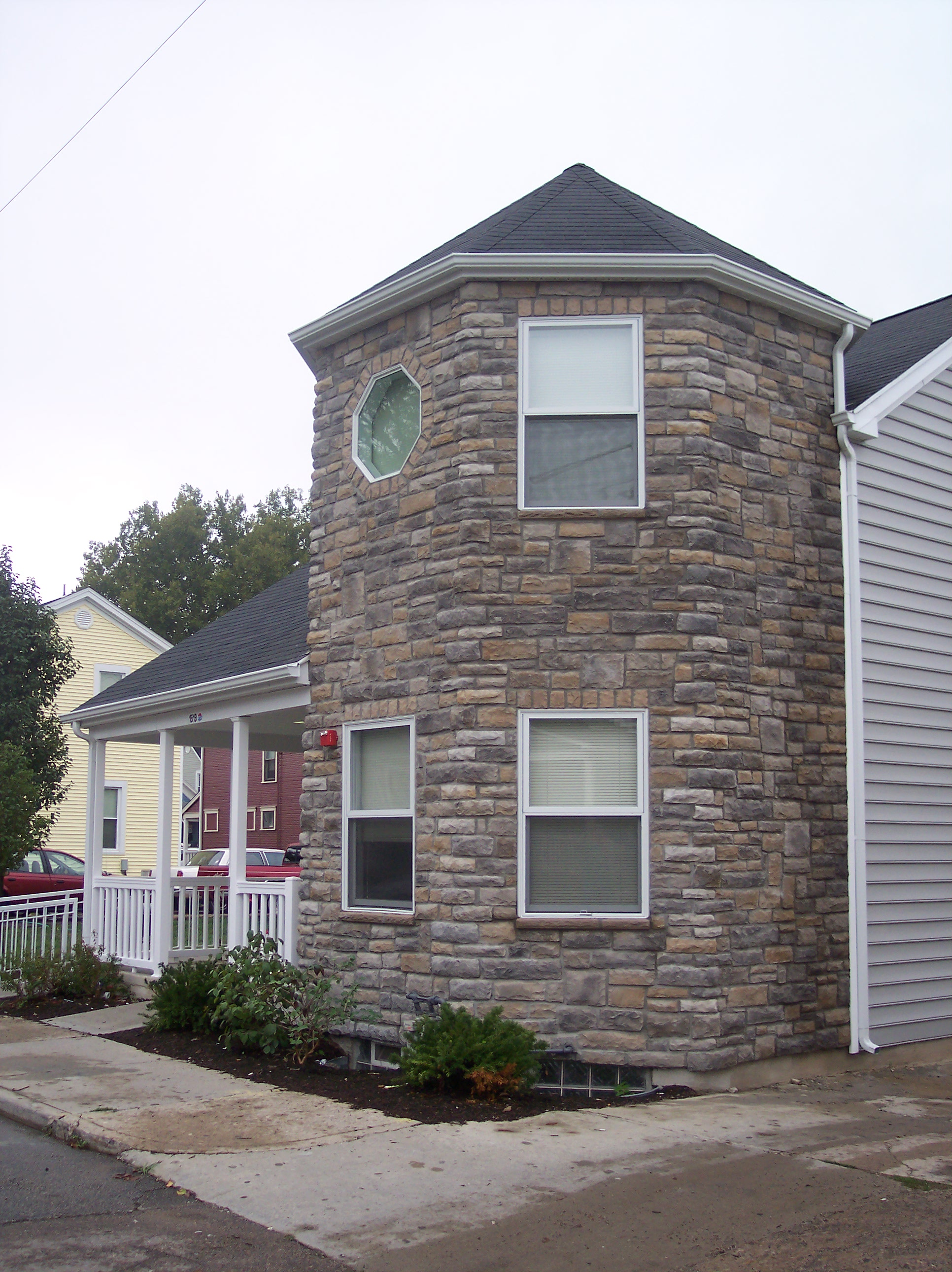 1519 Frericks Way, the famous "Castle." The house was recently renovated, and faux-stone siding was replaced with more realistic stone.